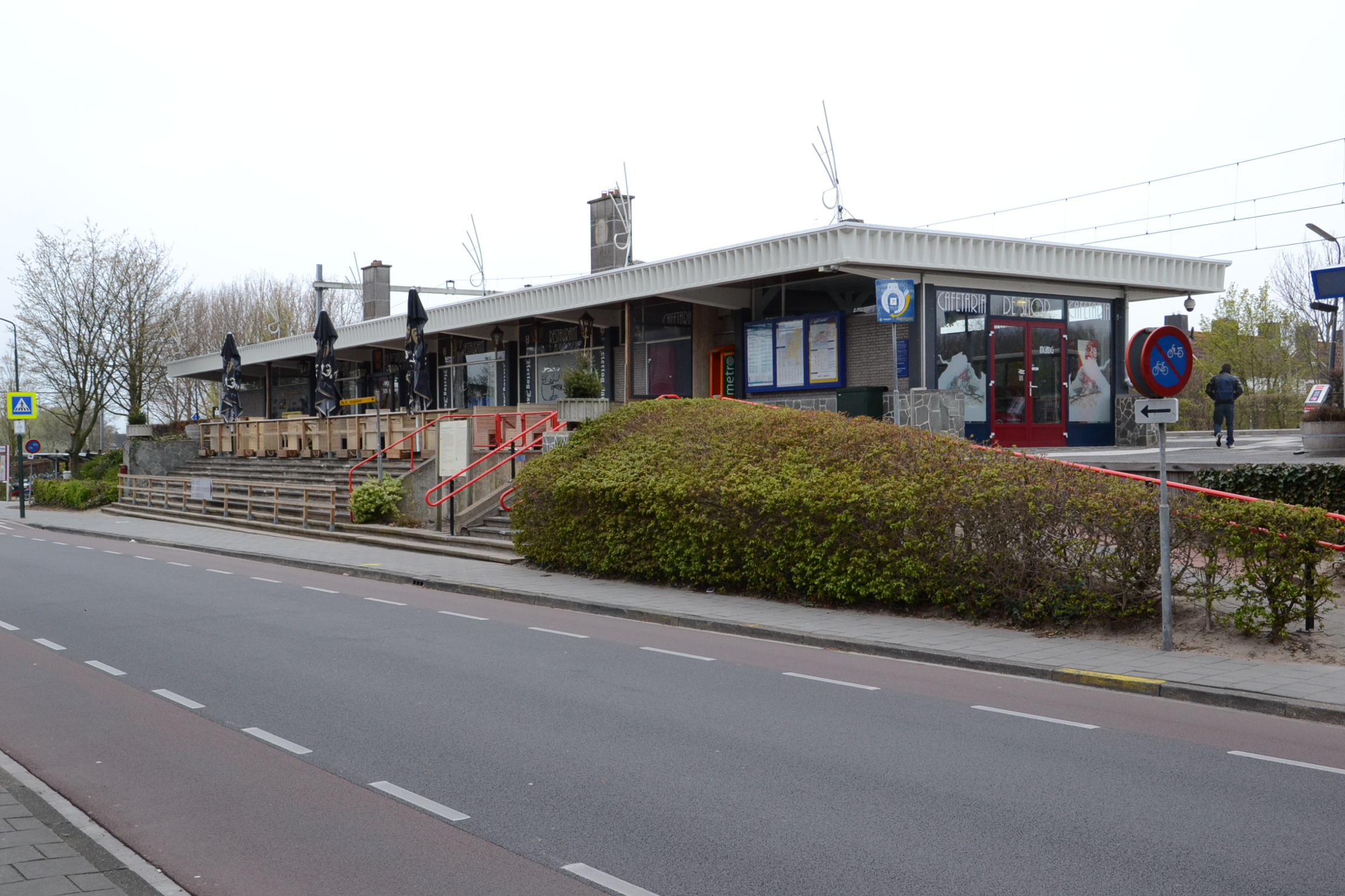 Hardinxveld-Giessendam Railway station, part of the MerwedeLingelijn, The Netherlands